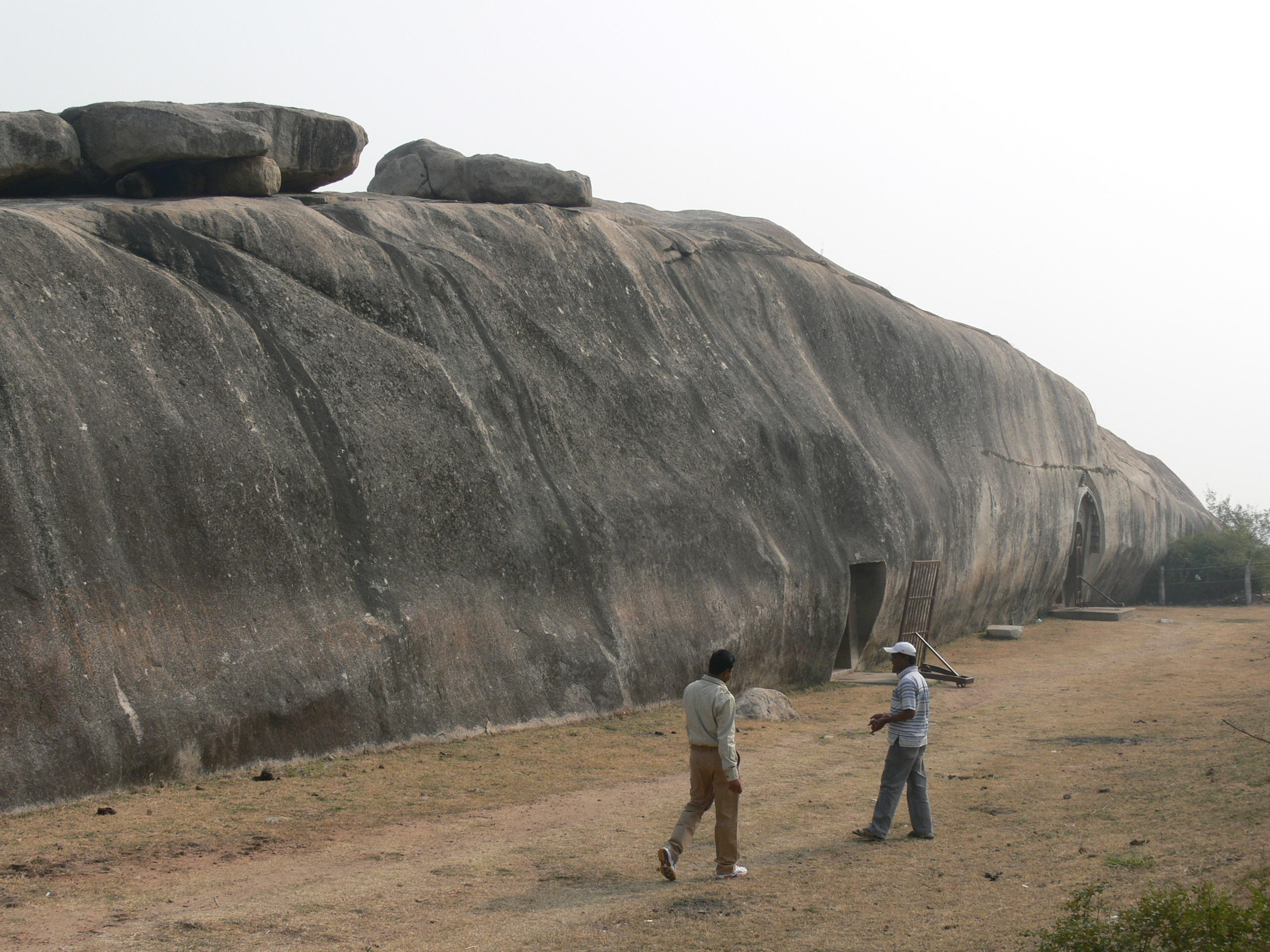 Barabar site: Sudama and Lomas Rishi Caves, Bihar (India)